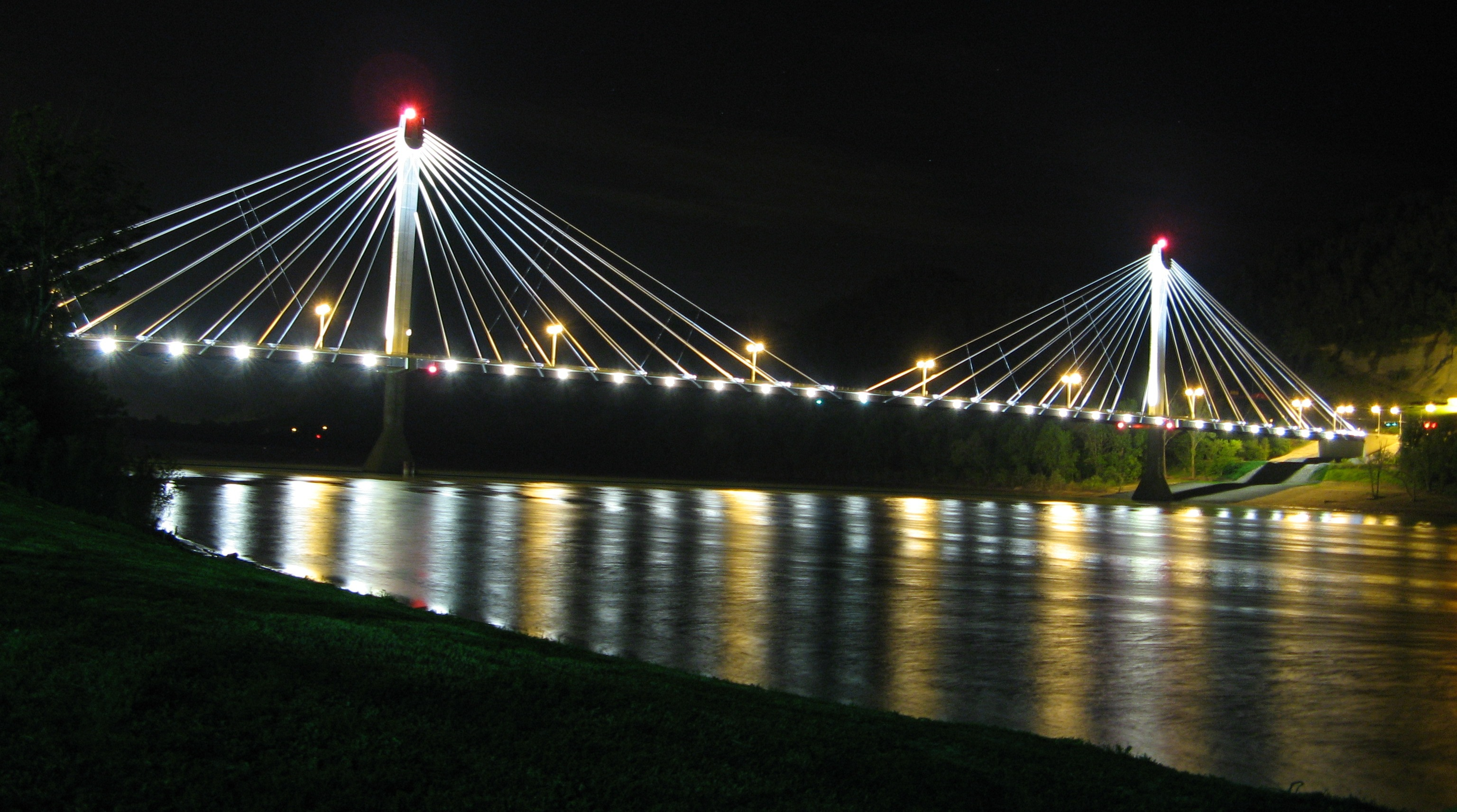 The new U.S. Grant Bridge at night from Portsmouth, Ohio. This photo was taken at roughly 2AM on May 10th, 2007.